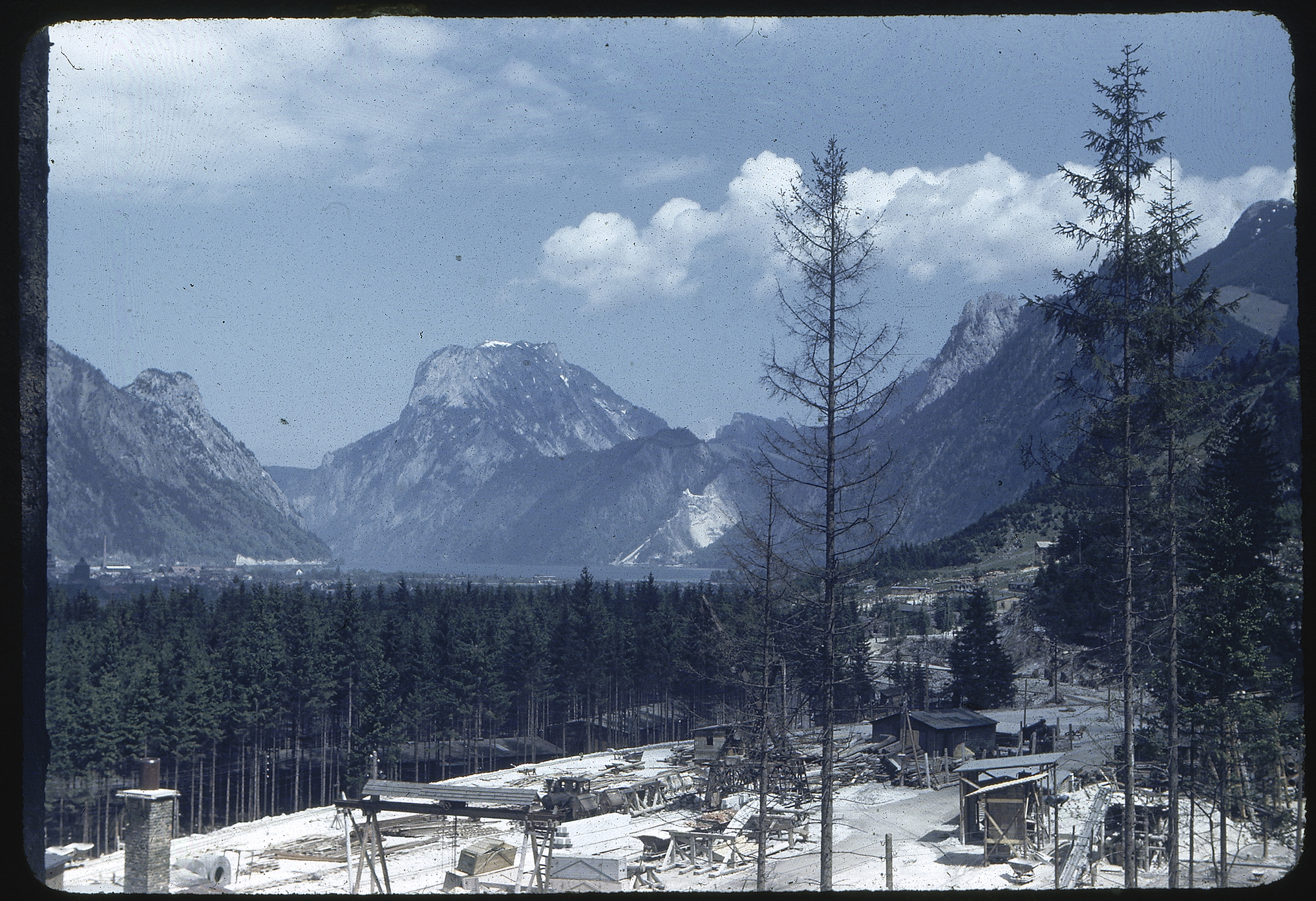 Ebsensee Camp